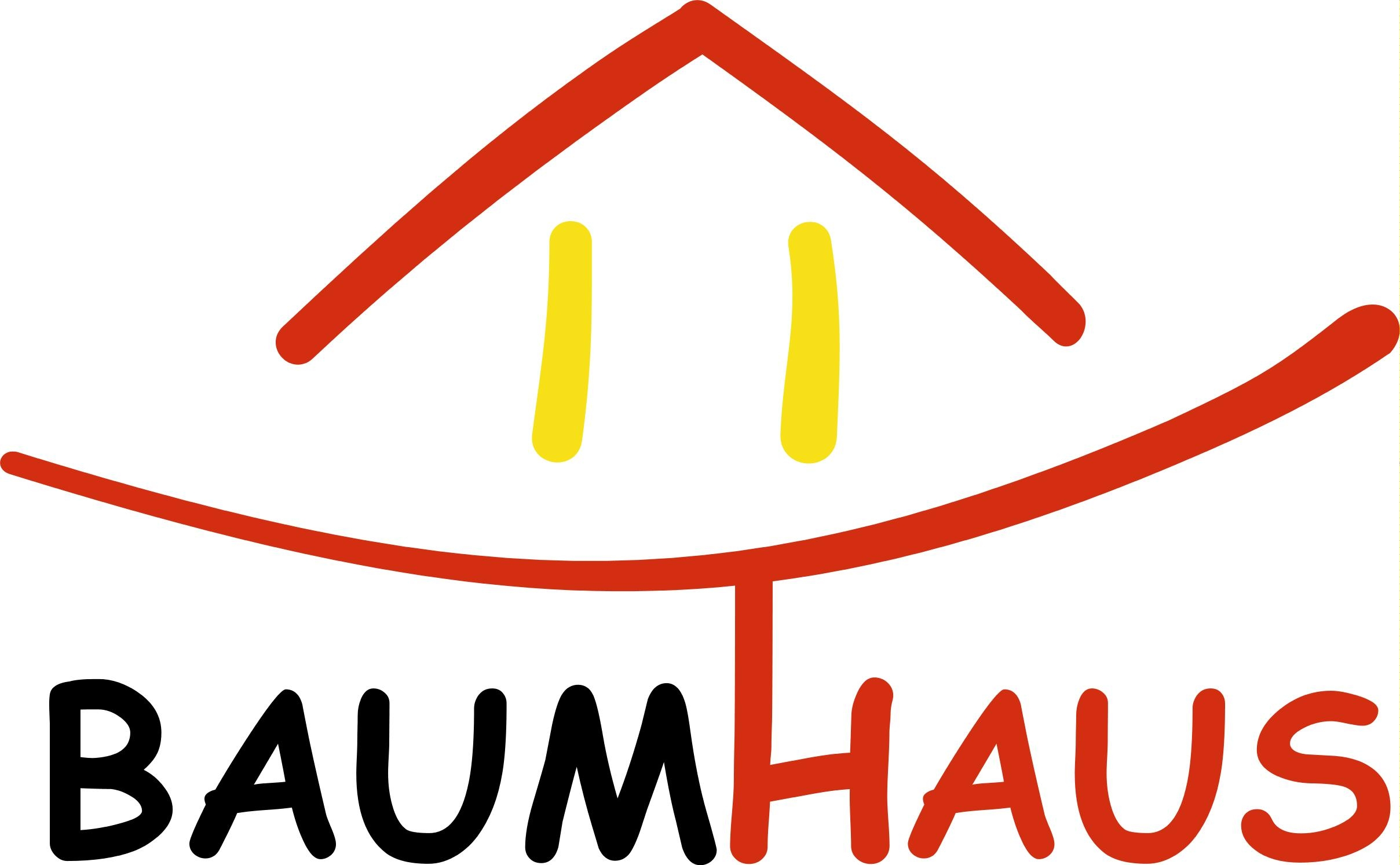 Logo of Project "Baumhaus".